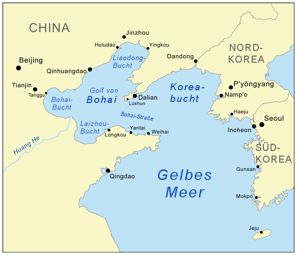 Map of the Bohai Sea and surrounding bays.